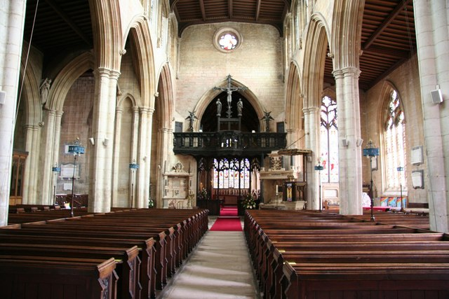 St.Denys' nave The arcades were built c1370 and the clerestorey added in 1430